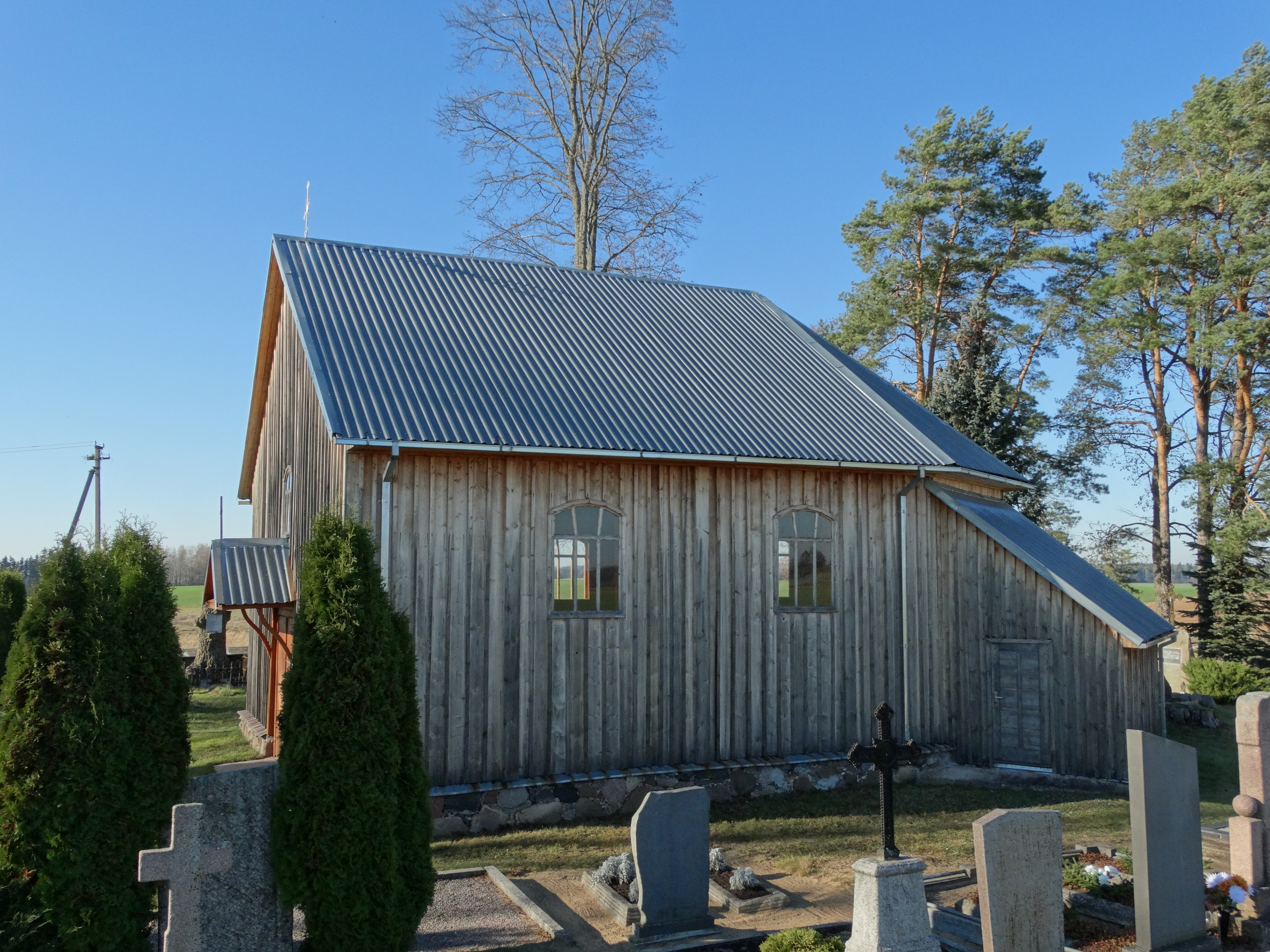 Chapel in Žiliškiai, Panevėžys district, Lithuania